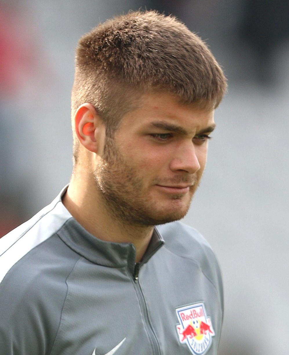 2016–17 Austrian Cup: FC Admira Wacker Mödling (red shirts) vs. FC Red Bull Salzburg (white shirts) at 26. April 2017 in the BSFZ-Arena in Maria Enzersdorf 0:5 (0:2) – The photo shows Duje Ćaleta-Car (FC Red Bull Salzburg)